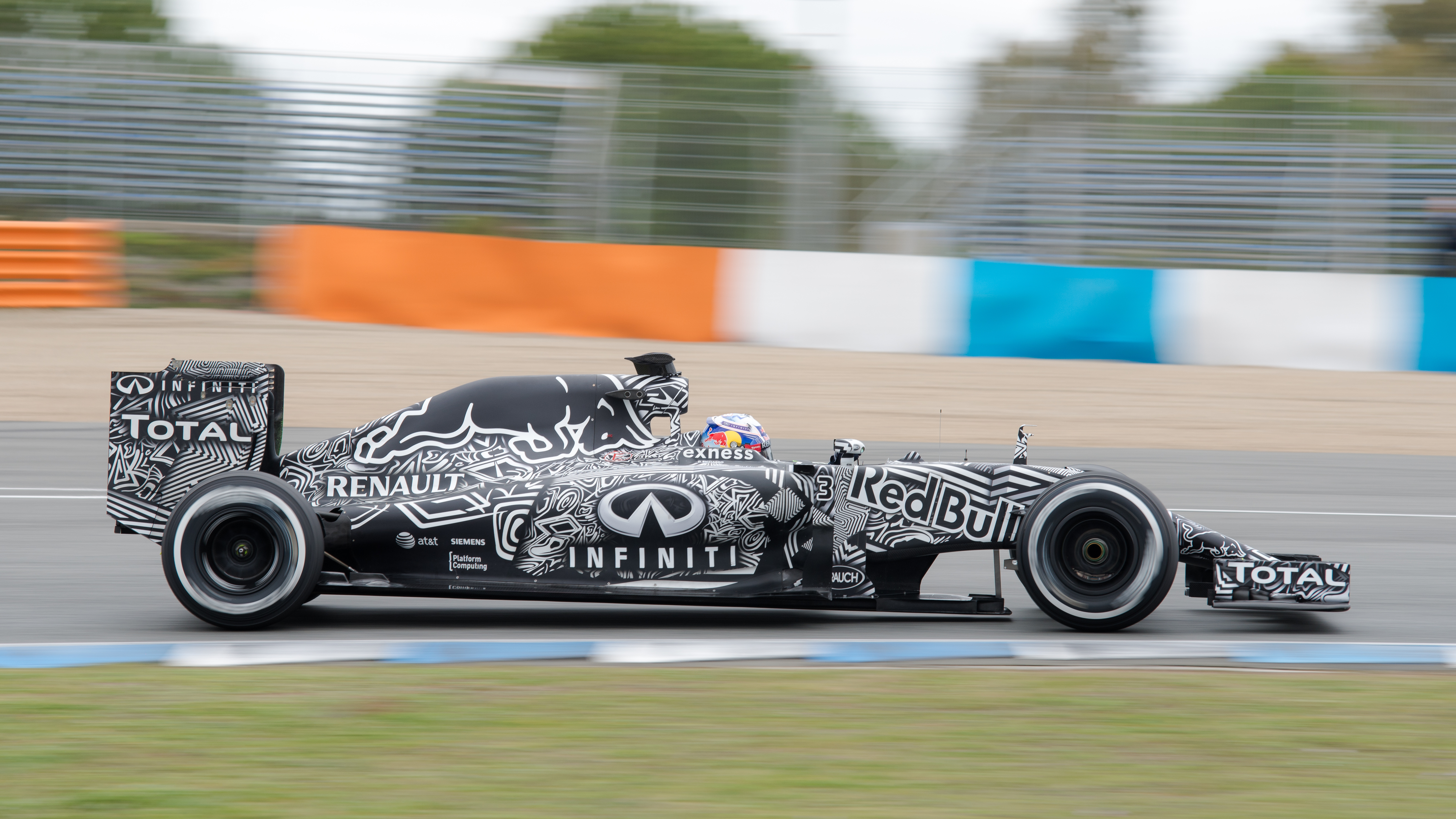 The RB-11 is the car developed by Infiniti Red Bull Racing to challenge for the 2015 Formula 1 Constructors and Drivers' Championship. Daniel Ricciardo is pictured here driving the car on day three of the first pre-season test at the Circuito de Jerez. The car made an eye-catching debut at Jerez with this striking black and white camoflague livery, similar to those used in prototype road cars.